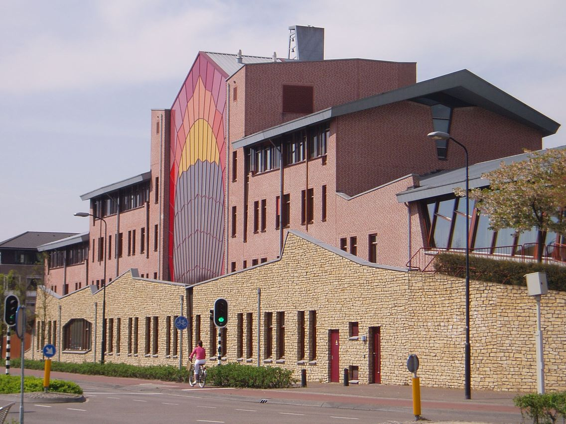 Town hall of Reusel-De Mierden